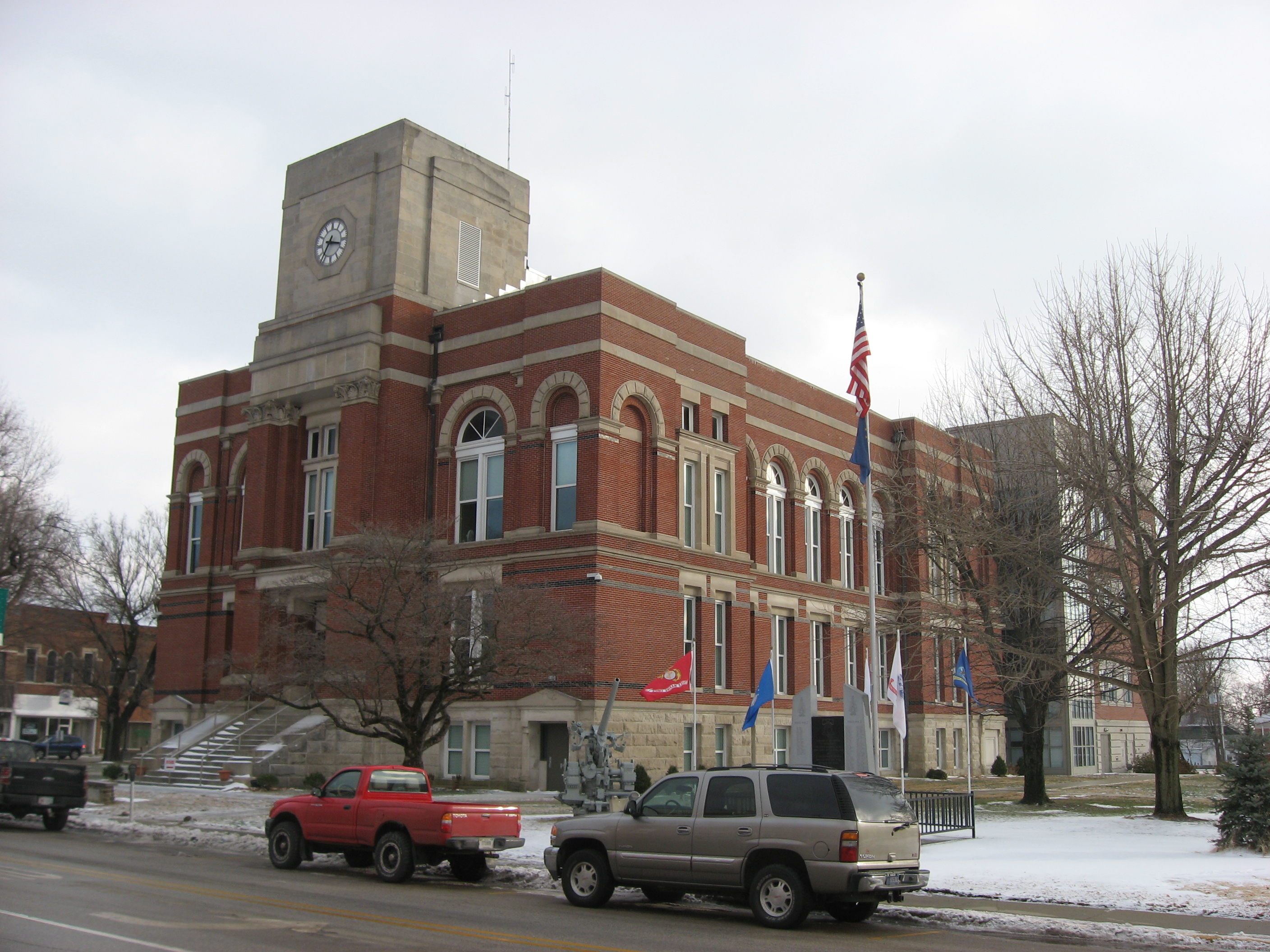 Front and western side of the Greene County Courthouse, located on Courthouse Square in downtown Bloomfield, Indiana, United States. Built in 1885, it is listed on the National Register of Historic Places.